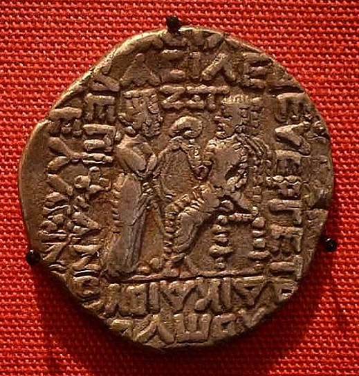 Silver Tetradrachm of Vologases I Enthroned king Vologases I facing left, receiving diadem from Tyche, standing with sceptre. AD 55-56 Purchased from Dr Lubiez, 1891 1891,0603.37 @britishmuseum Persians